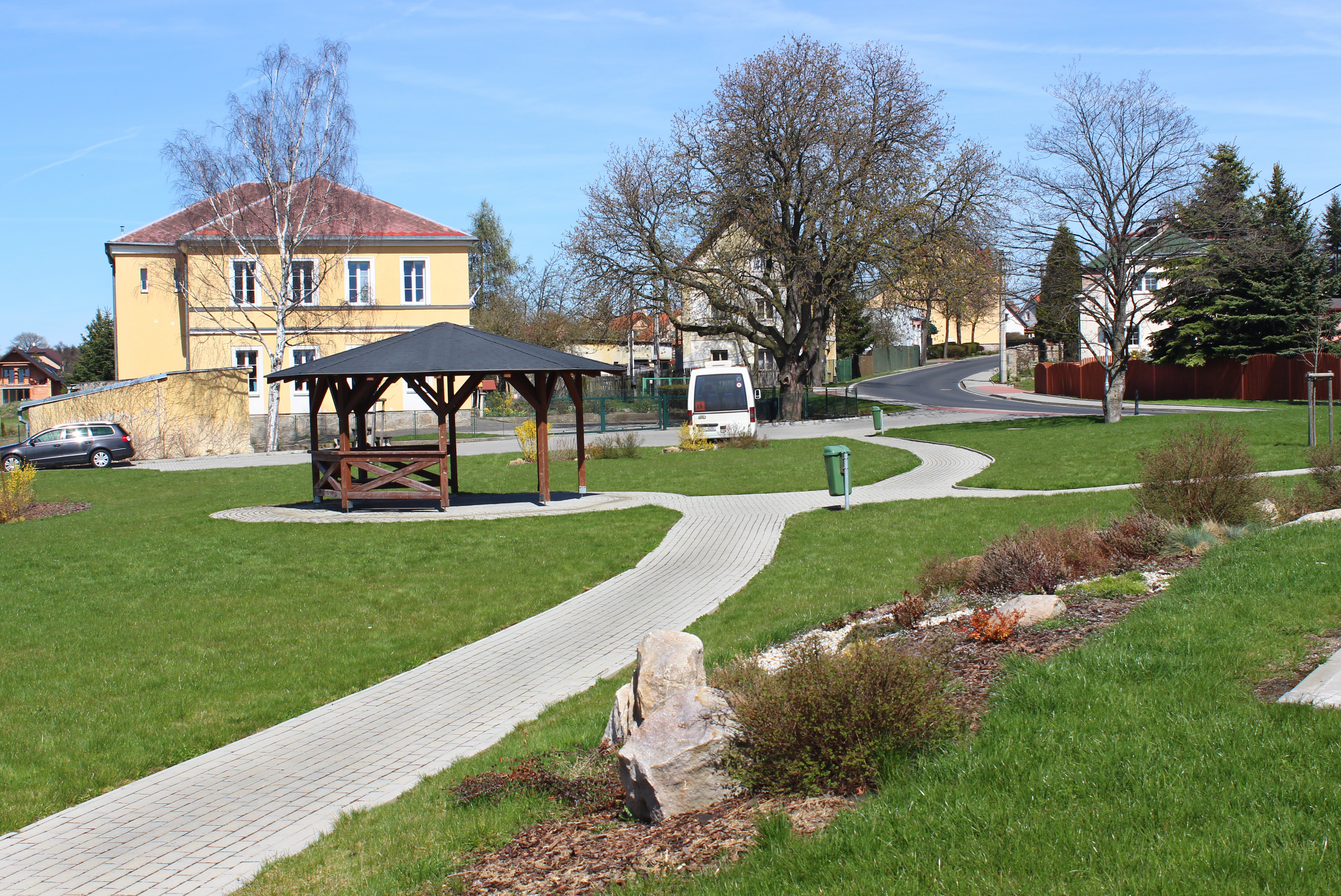 Small park in Kolová village, Czech Republic